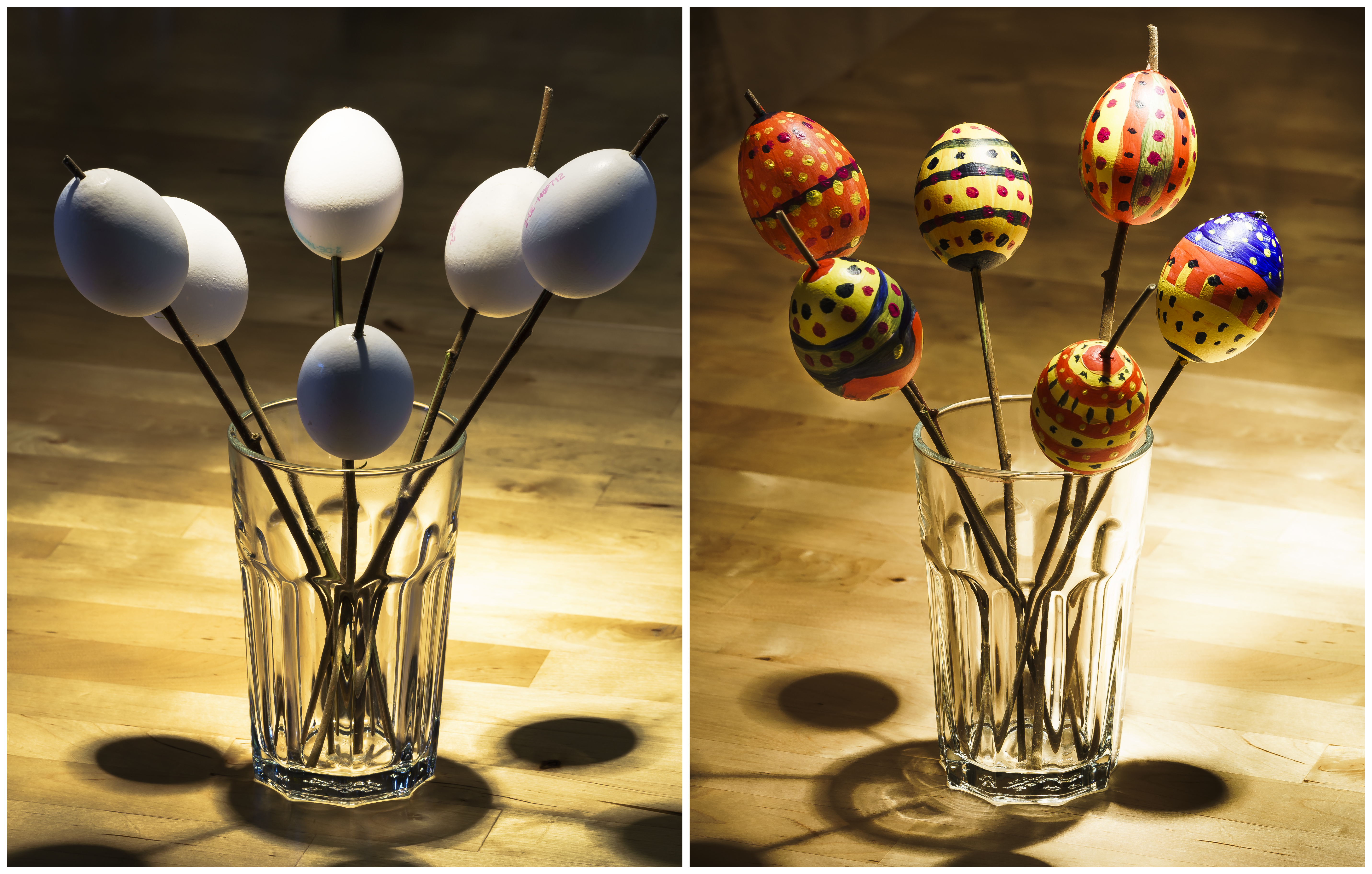 Colors for the Easter eggs